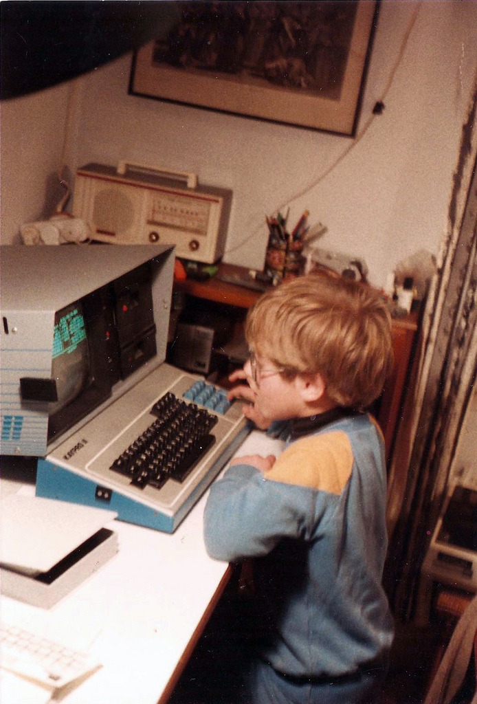 Original description: At my grandfathers' study, sitting in front of 'the end of the line' Kaypro II computer. Jerusalem, 1984